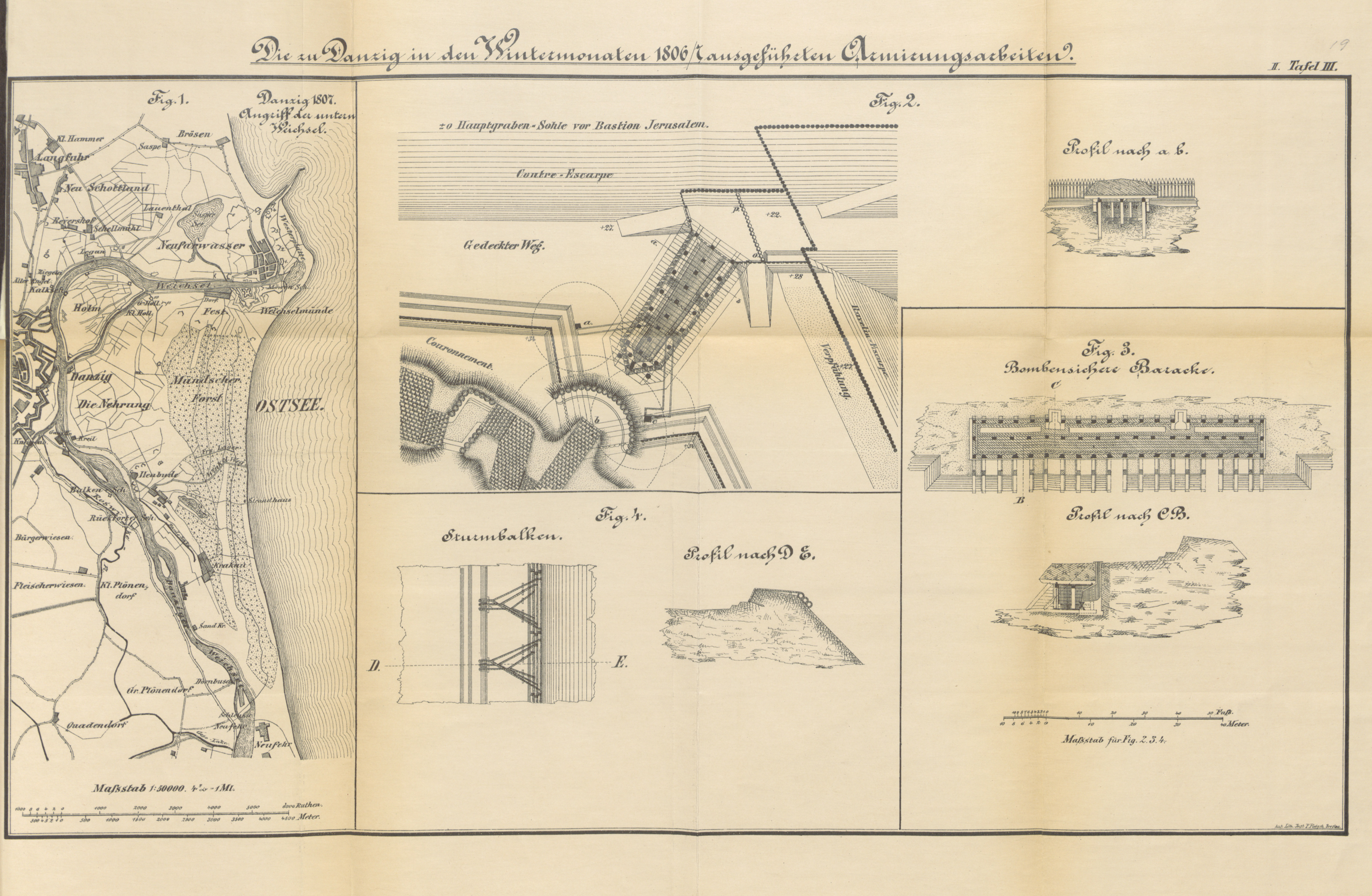 View this map on the BL Georeferencer service. Image taken from: Title: "Geschichte der Festungen Danzig und Weichselmünde bis zum Jahre 1814, in Verbindung mit der Kriegsgeschichte der freien Stadt Danzig. Mit ... Plänen, etc" Author: KOEHLER, G. - Generalmajor Shelfmark: "British Library HMNTS 9335.dd.9." Page: 1097 Place of Publishing: Breslau Date of Publishing: 1893 Issuance: monographic Identifier: 001996329 Explore: Find this item in the British Library catalogue, 'Explore'. Download the PDF for this book (volume: 0) Image found on book scan 1097 (NB not necessarily a page number) Download the OCR-derived text for this volume: (plain text) or (json) Click here to see all the illustrations in this book and click here to browse other illustrations published in books in the same year. Order a higher quality version from here. This file is from the Mechanical Curator collection, a set of over 1 million images scanned from out-of-copyright books and released to Flickr Commons by the British Library. Please add the Flickr page URL for the image Please add the British Library system number for the book This tag does not indicate the copyright status of the attached work. A normal copyright tag is still required. See Commons:Licensing.